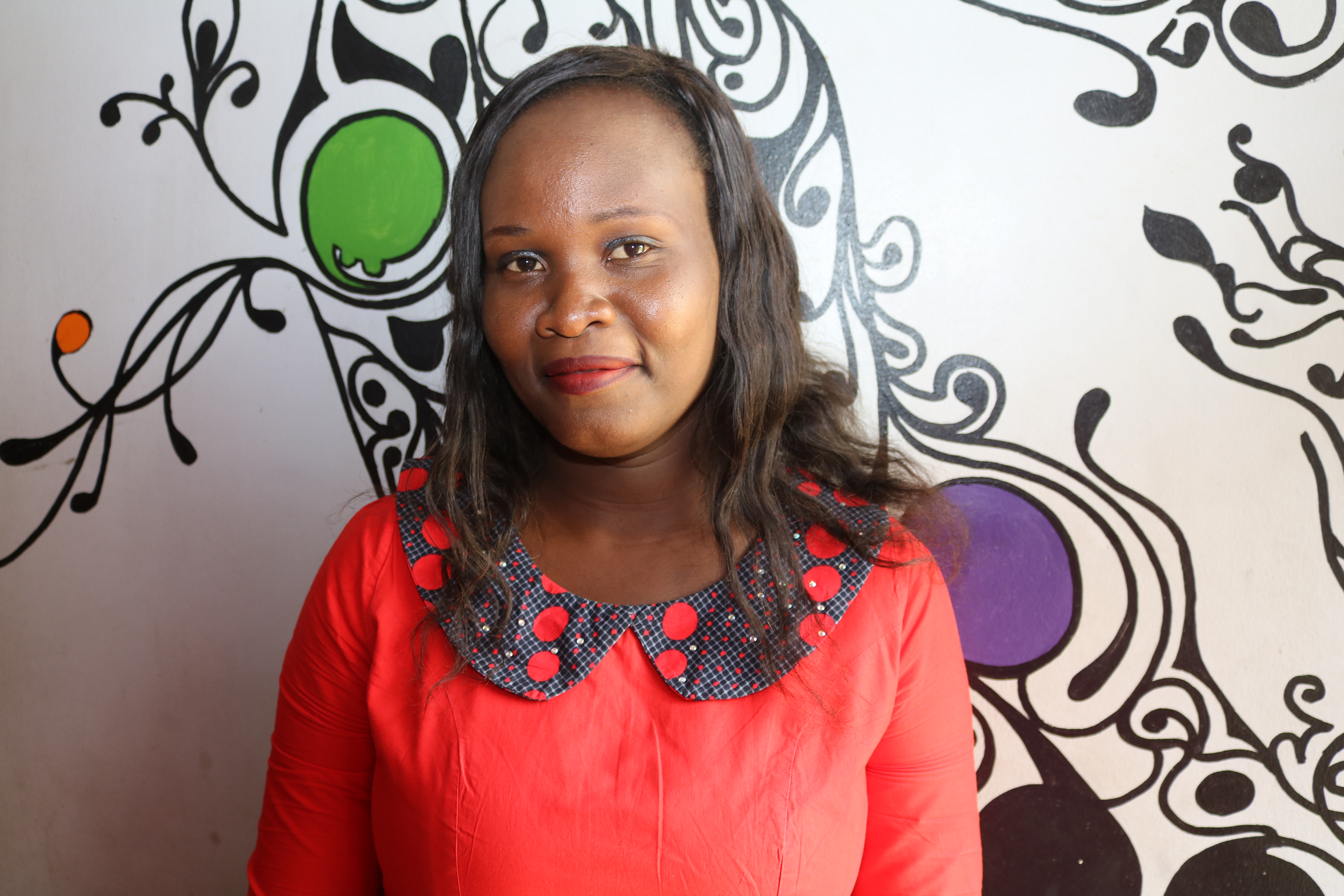 Mayowa Adegbile in the popular Salamander Cafe in Abuja, Nigeria